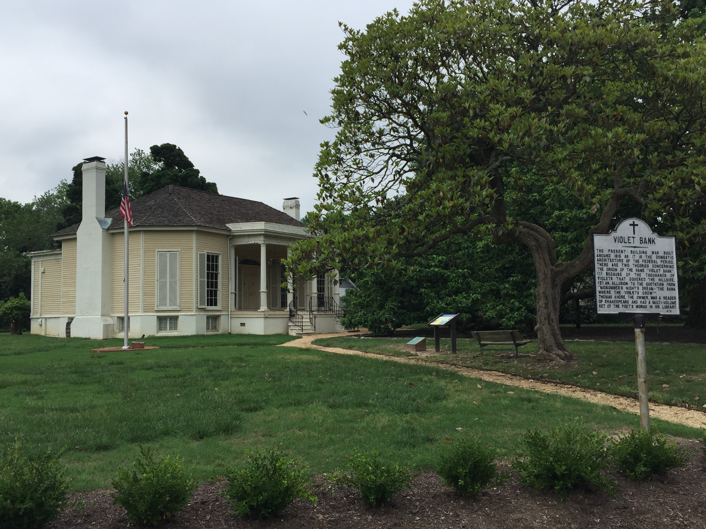 Violet Bank Museum, 2018